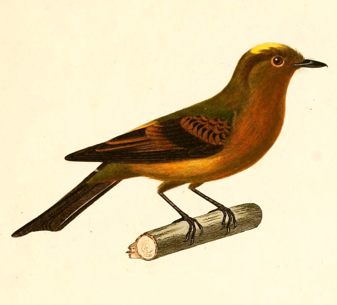 « Muscipeta cinnamomea » = Pyrrhomyias cinnamomeus (Cinnamon Flycatcher)